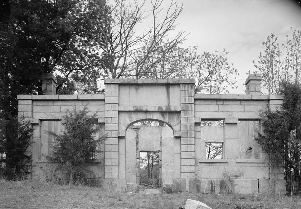 Lock Keeper's House, Rocky Mount Canal, Great Falls vicinity, Chester County, SC. This building was moved to the Landsford Canal as an interpretive centre.